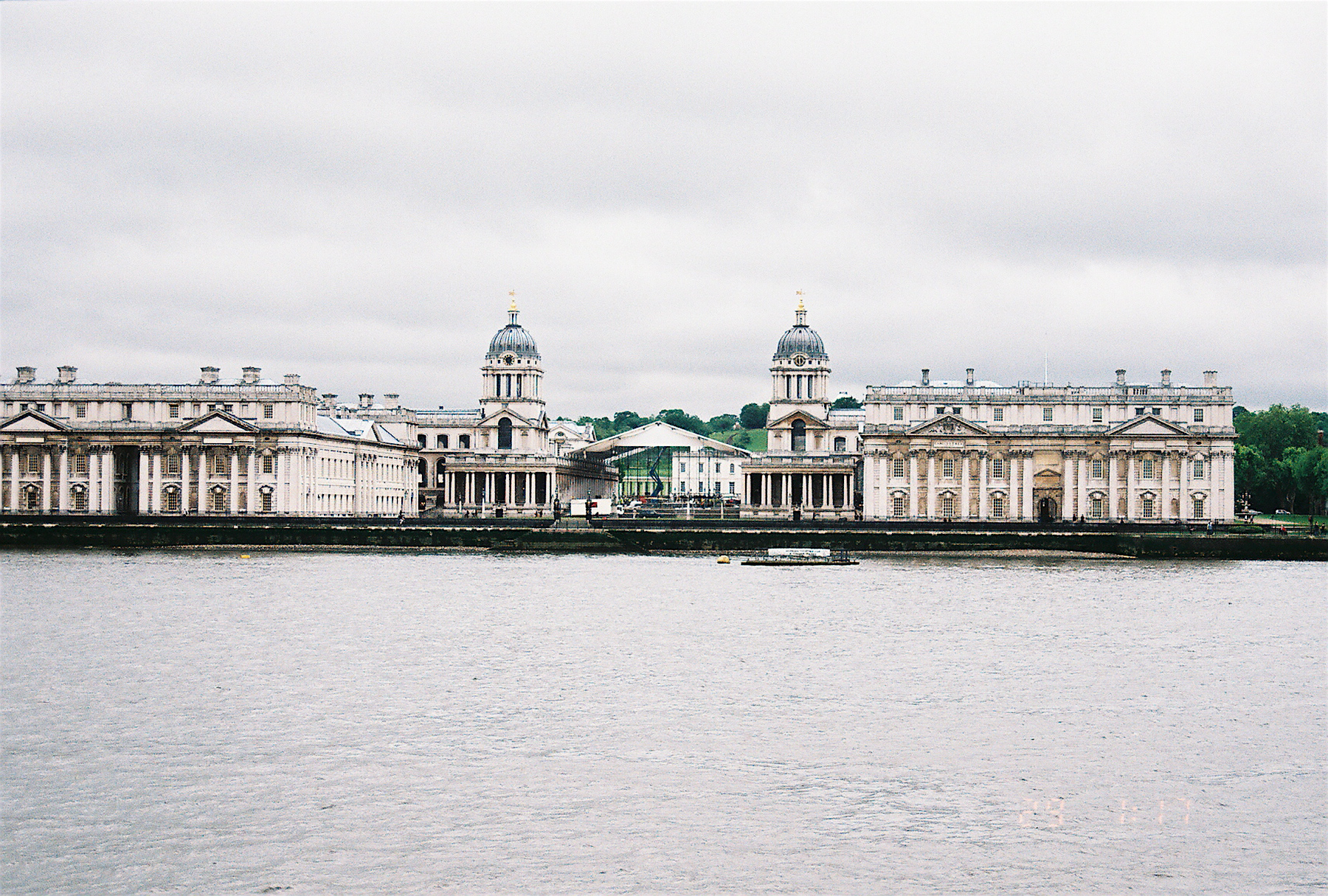 Royal Naval College from across the Thames